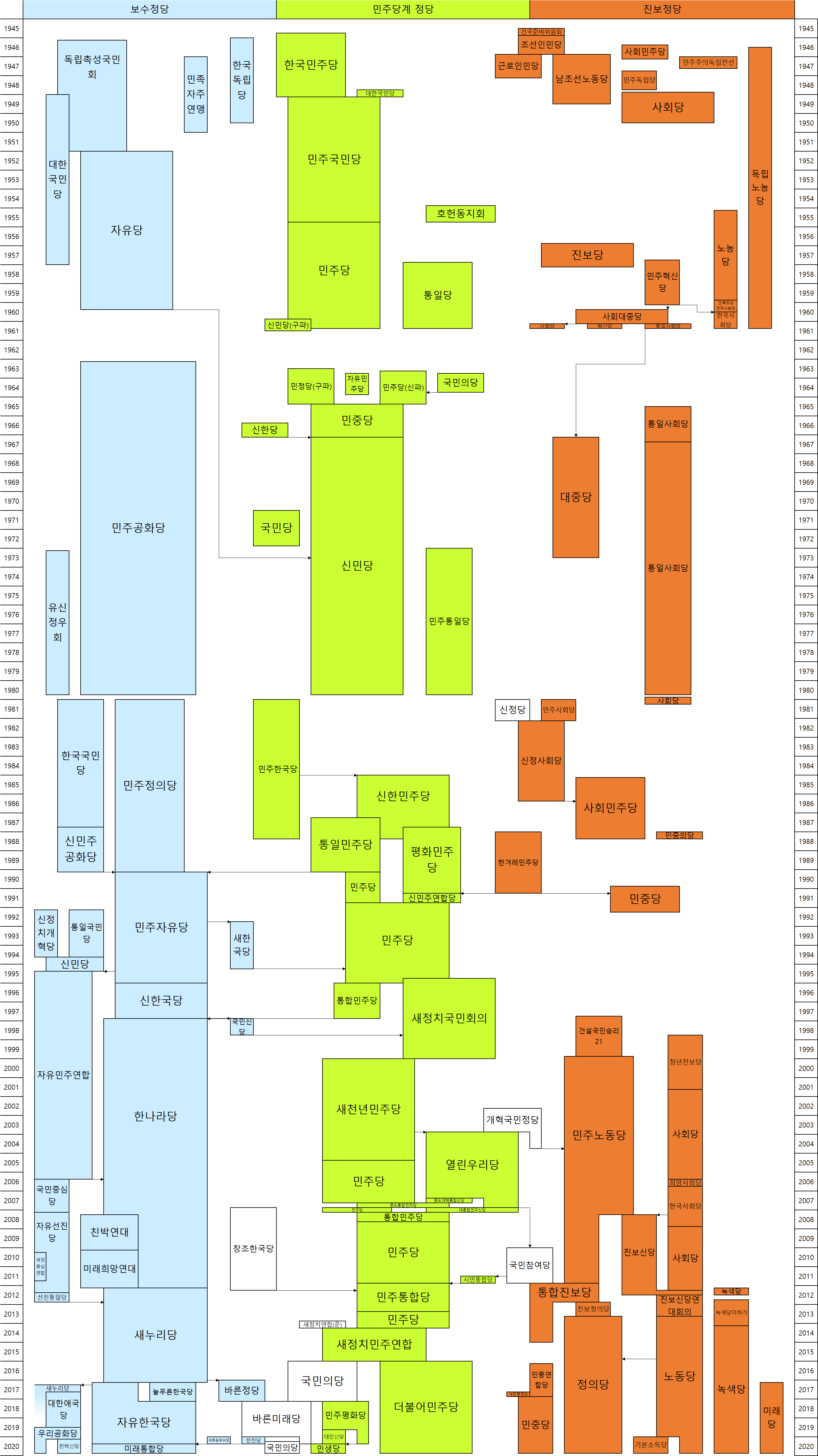 South Korea's political party timeline